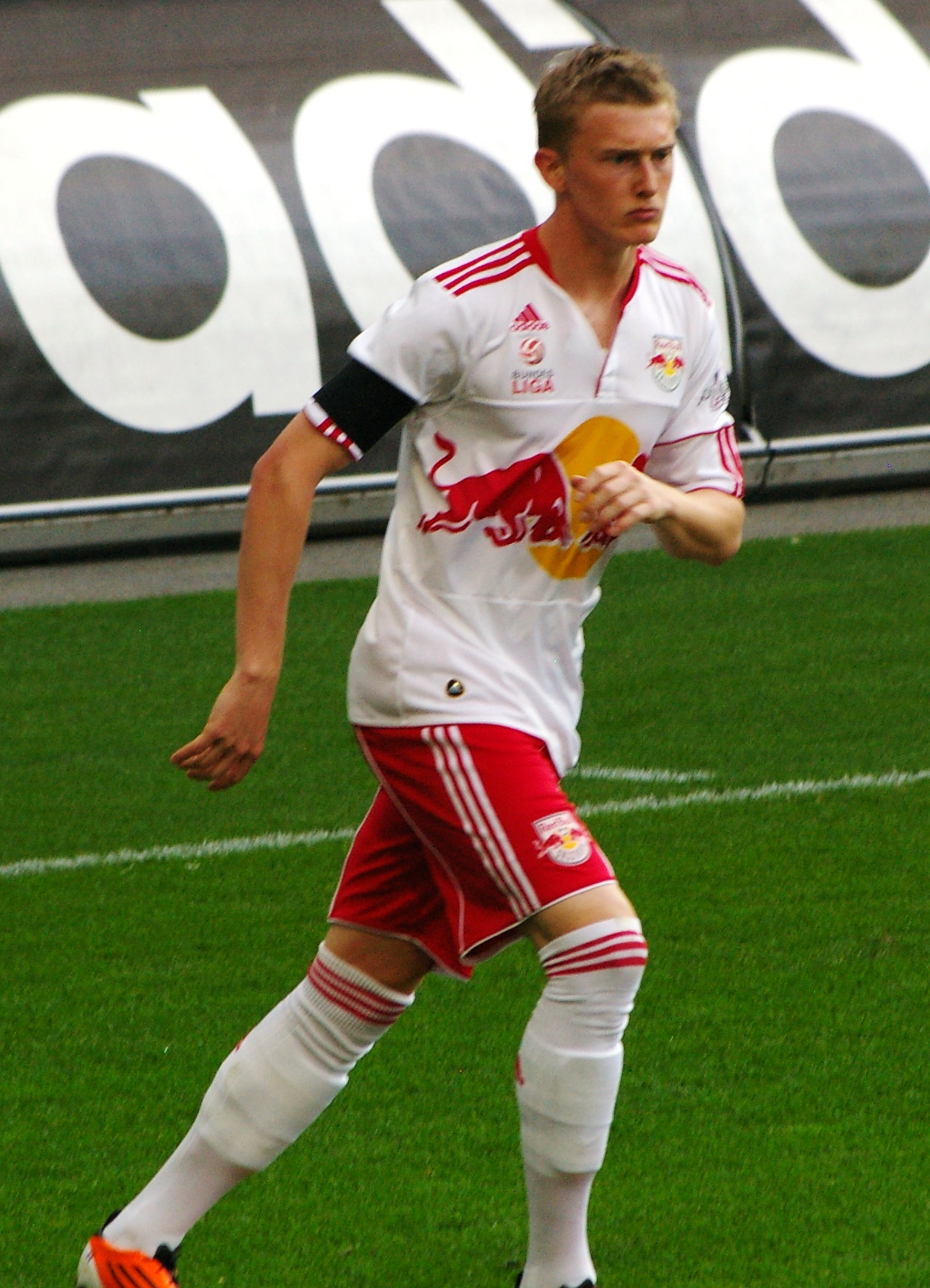 midfielder Salzburg